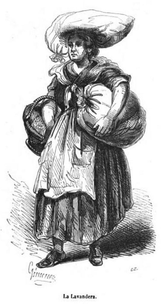 "La Lavandera", illustration from the book Los Españoles pintados por sí mismos.